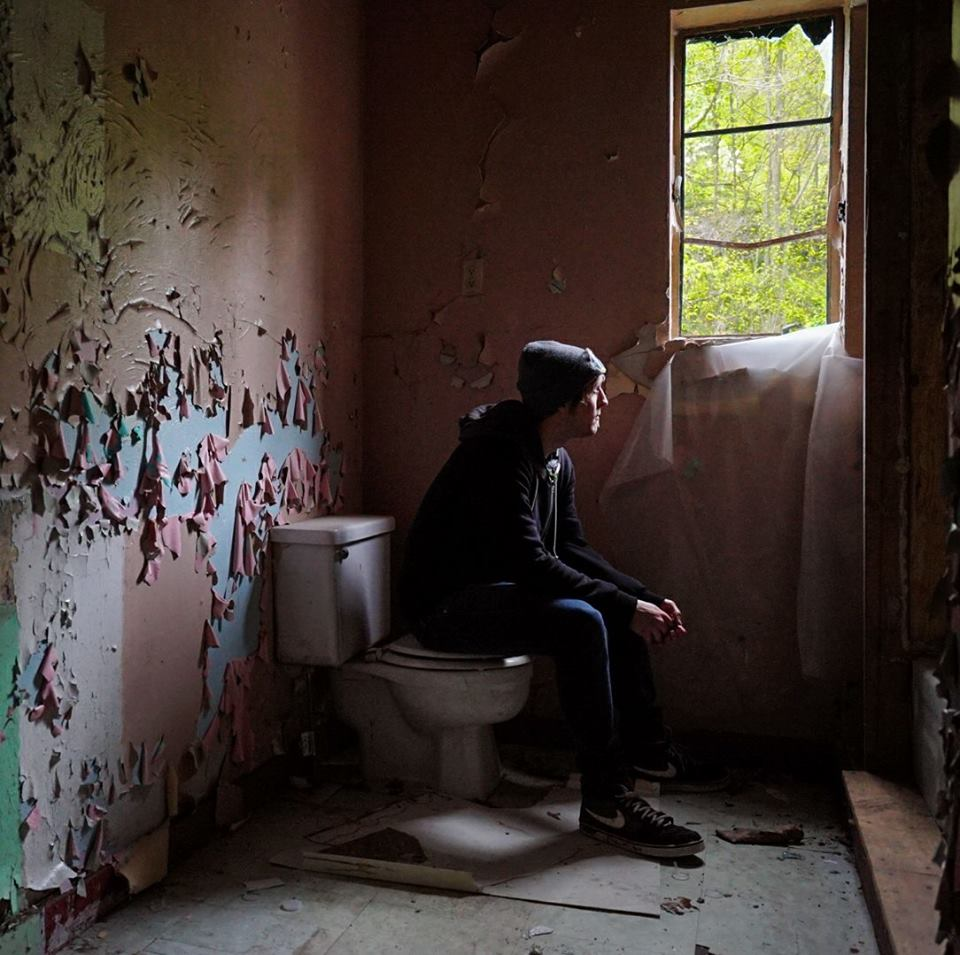 American photographer Johnny Joo sitting on a toilet in the abandoned town of Yellow Dog